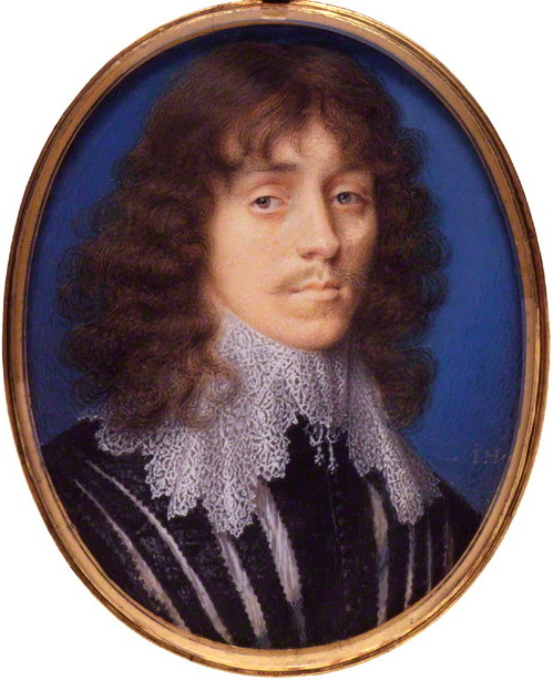 Lucius Cary, 2nd Viscount Falkland (c1610-1643)